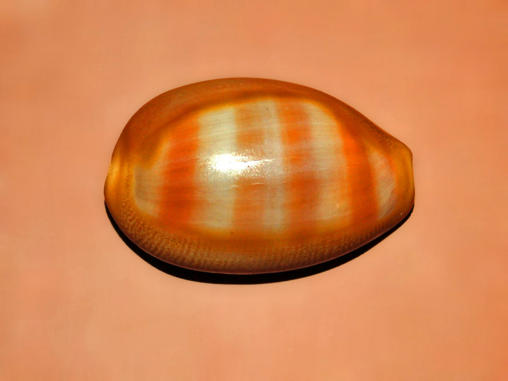 Lyncina schilderorum - Hawaii